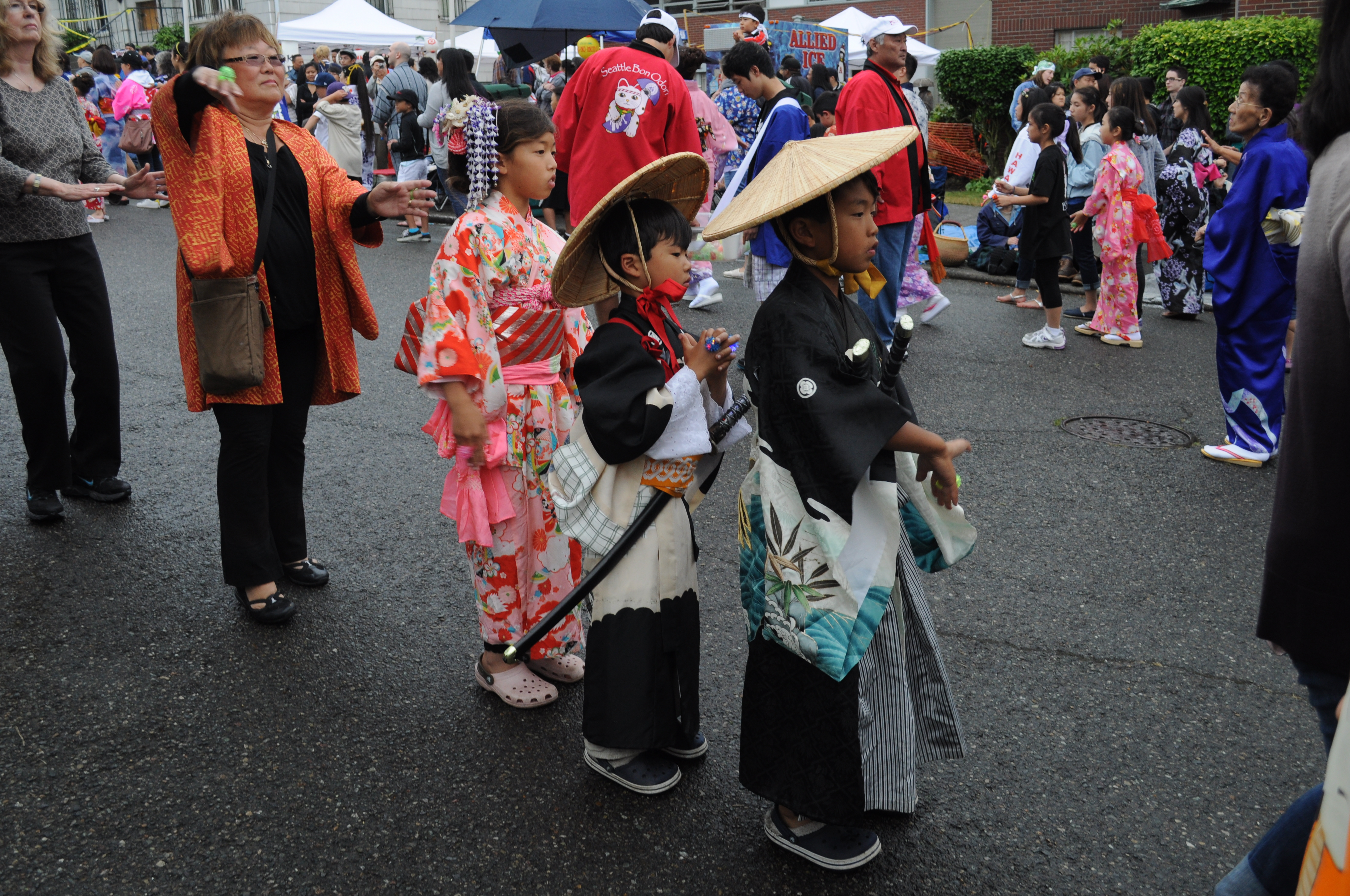 Bon Odori 2011, Seattle, Washington, USA.